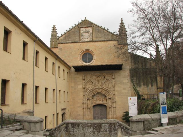 Segovia. Convento de Santa Cruz la Real